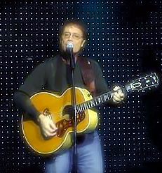 Cliff Richard in concert 2006